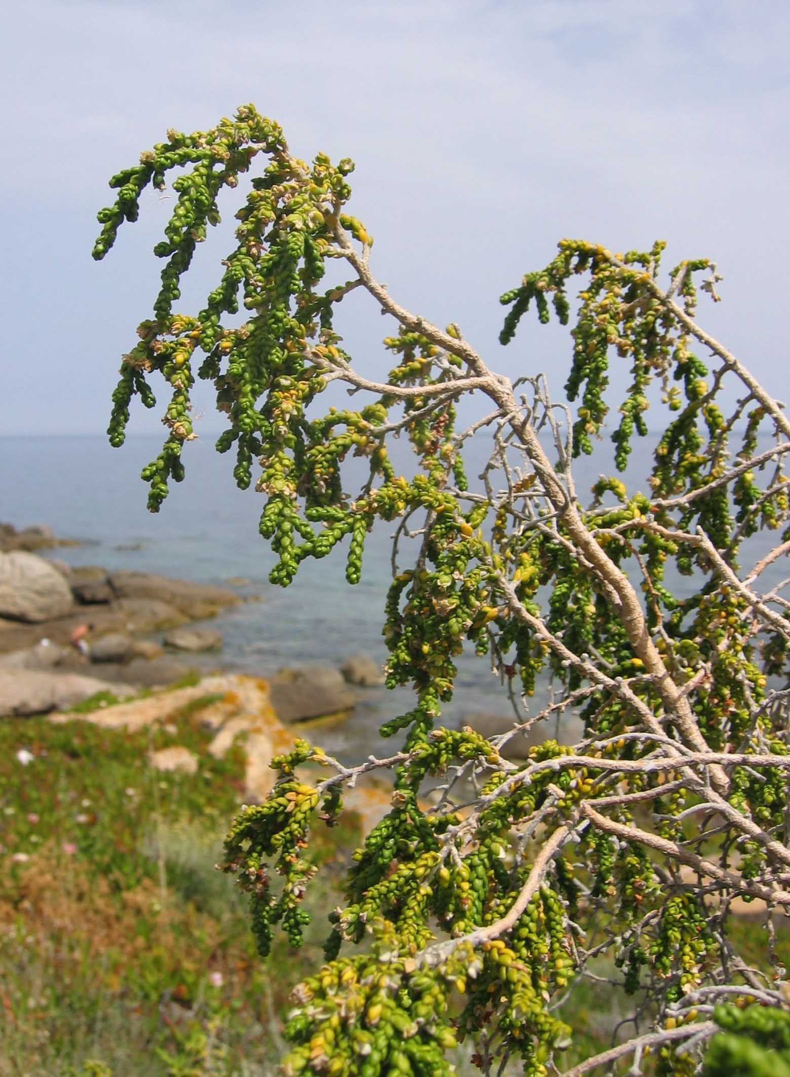 Thymelaea hirsuta Calvi, Corse, France